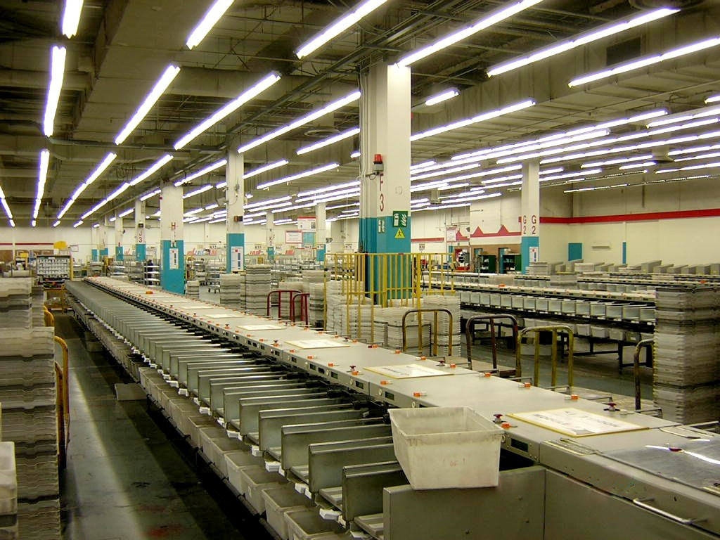 Automatic sorters inside a major postal facility.